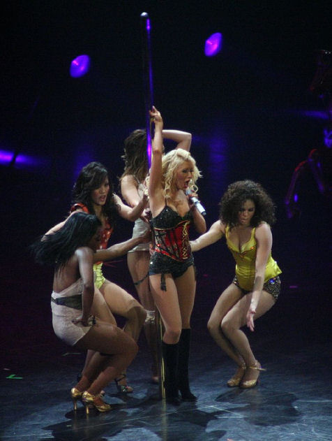 Christina Aguilera performs "Dirrty"